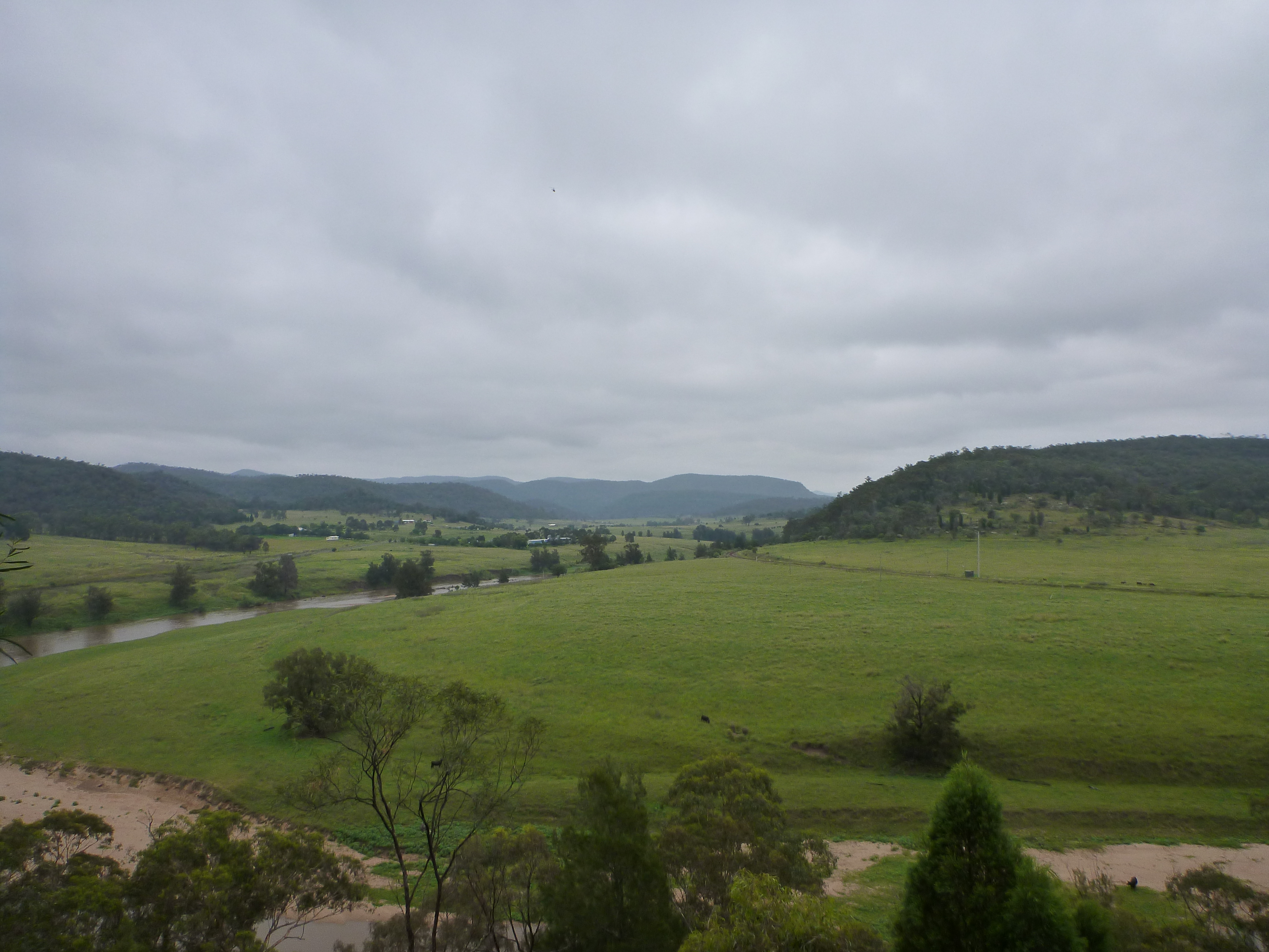 Phipps Cutting